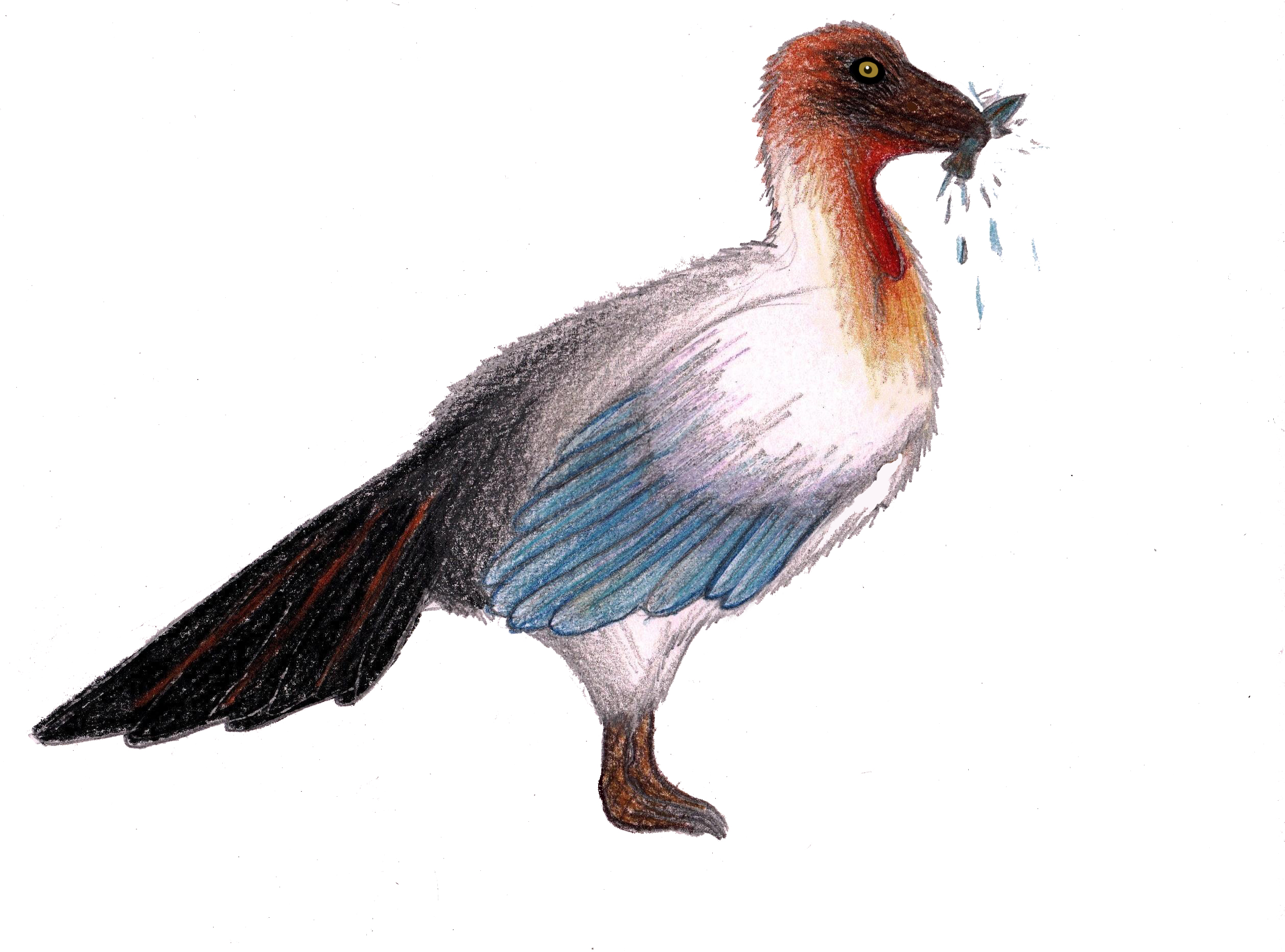 Artist's impression of Piscivoravis